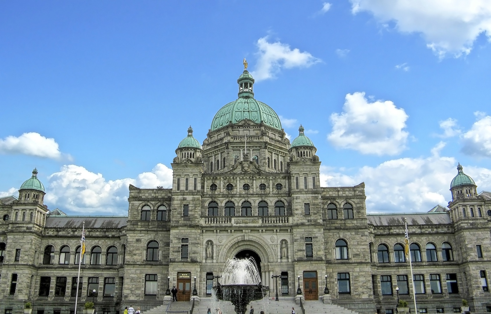 The timeless classic, British Columbia Parliament Building.